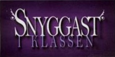 The logotype for the Swedish TV show "Snyggast i klassen".